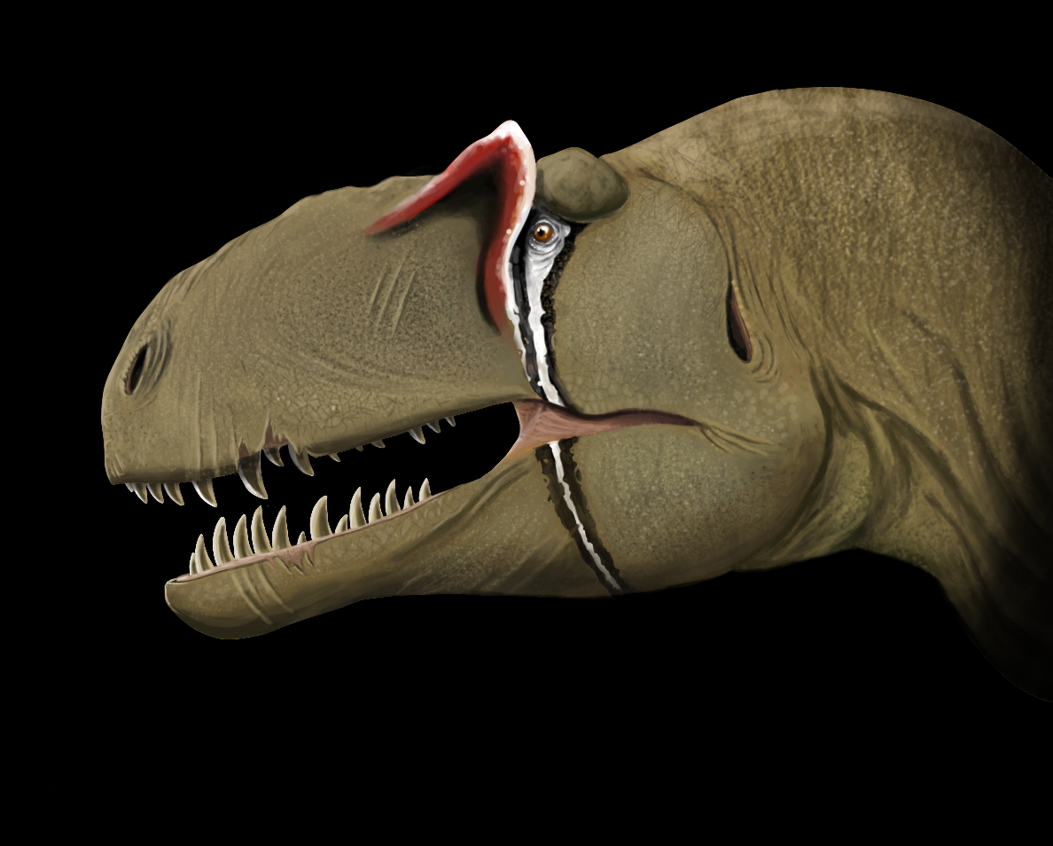 Artistic representation of the new theropod A. vialidadi